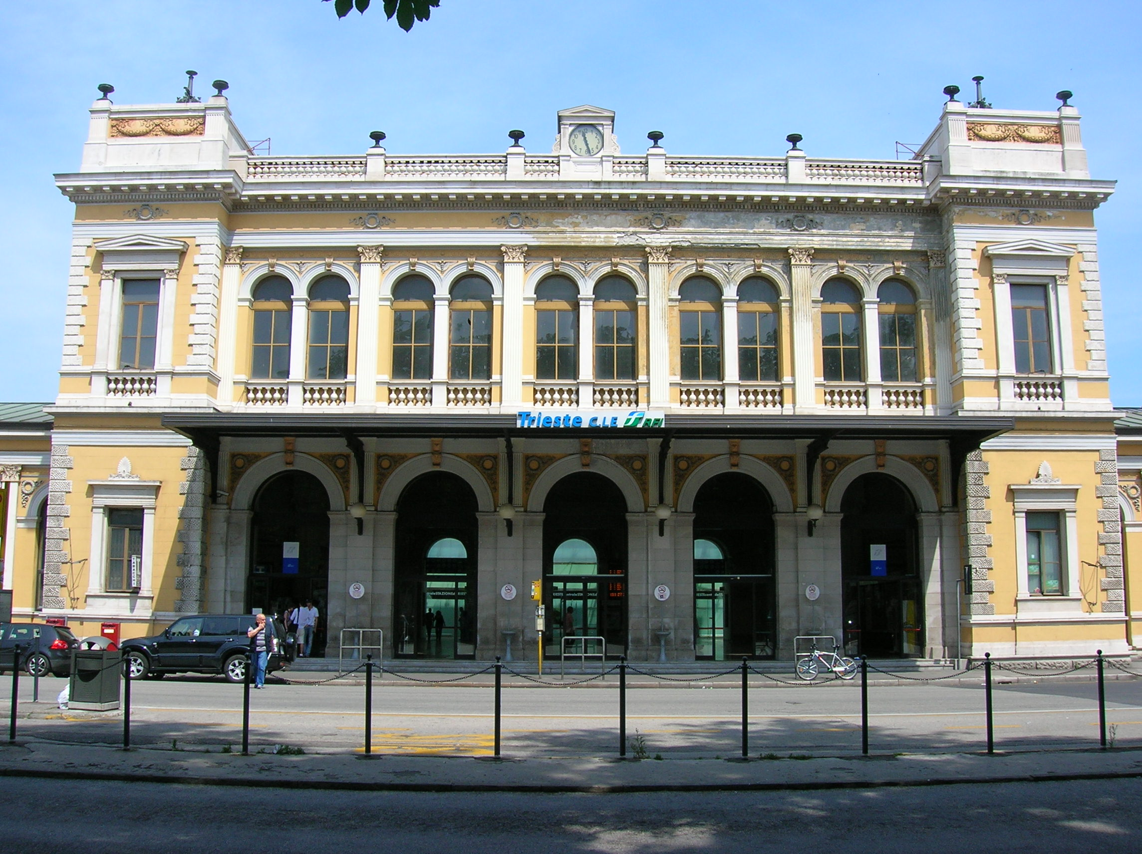 Trieste central station